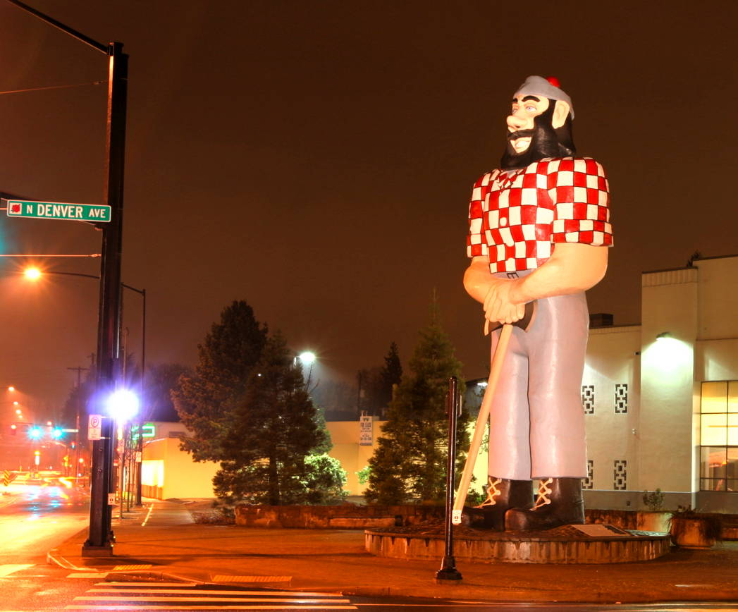 The statue of Paul Bunyan in North Portland. Taken at night using a spotlight to illuminate the statue.